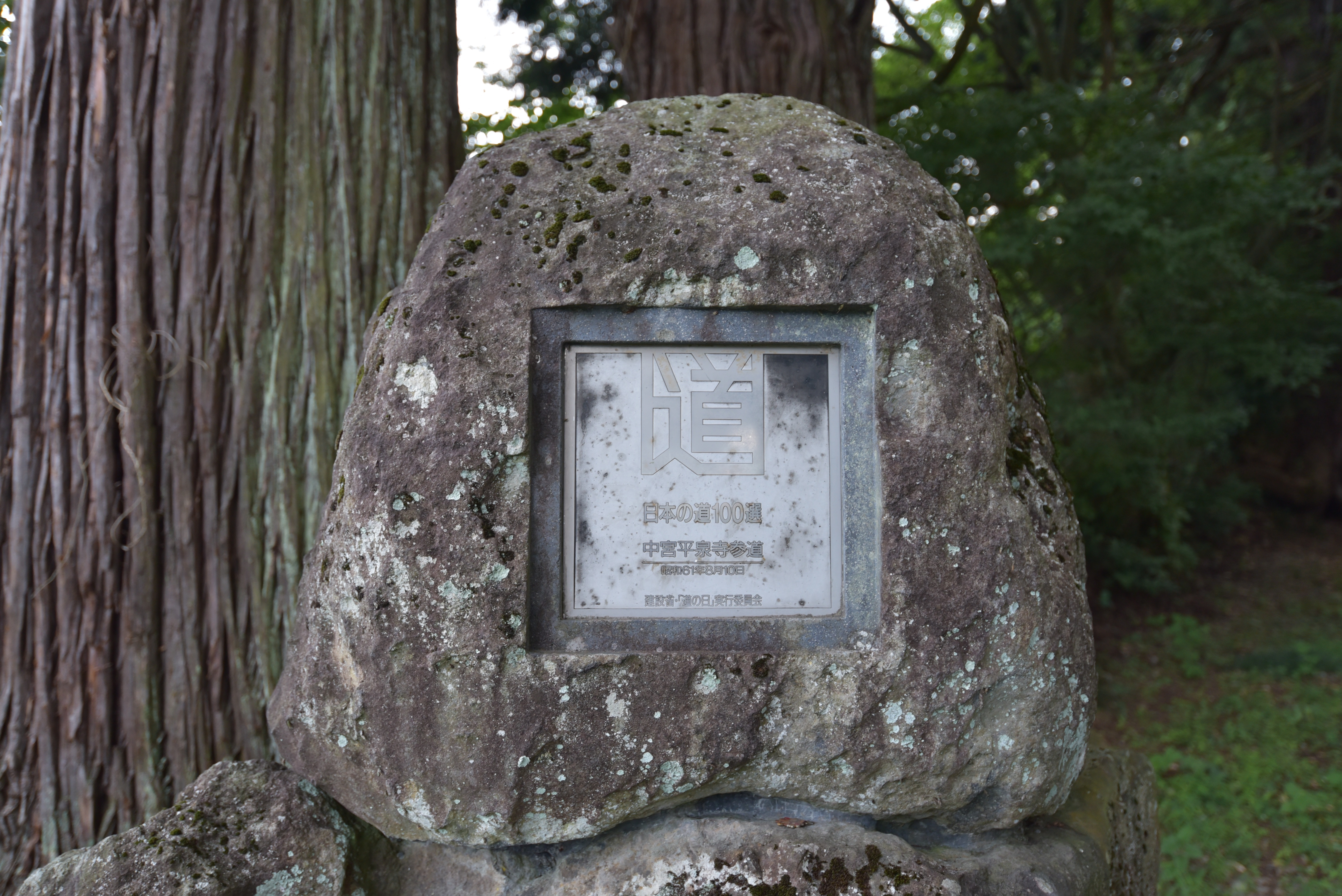 This is not a work of art. This location was selected to the Ministry of Land, Infrastructure and Transport of Japan has established "Japan's road hundred election". It is a photograph of the description to explain the above-mentioned.